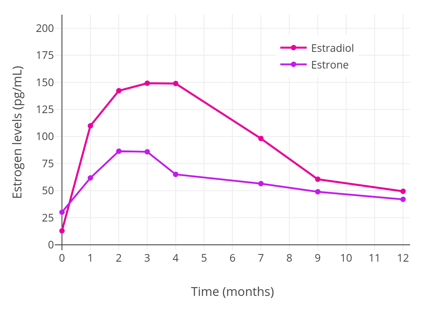 Levels of estradiol over the course of 14 months with a single 100 mg subcutaneous implant of estradiol in women. Sources of values: (in german) (1987) Das Klimakterium – Pathophysiologie, Klinik, Therapie, Stuttgart, Germany: Thieme Verlag, p. 108 ISBN: 978-3137008019. (2005). "Pharmacology of estrogens and progestogens: influence of different routes of administration". Climacteric 8 Suppl 1: 3–63. PMID 16112947. (September 1990). "Pharmacokinetics of oestrogens and progestogens". Maturitas 12 (3): 171–97. PMID 2170822.